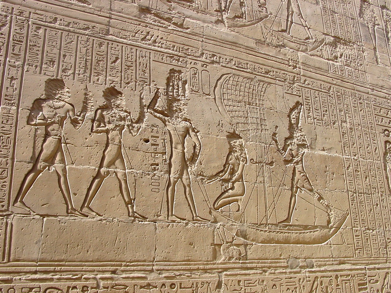 Ptolemy X Alexander I [1]. A wall relief from the Temple of Edfu.